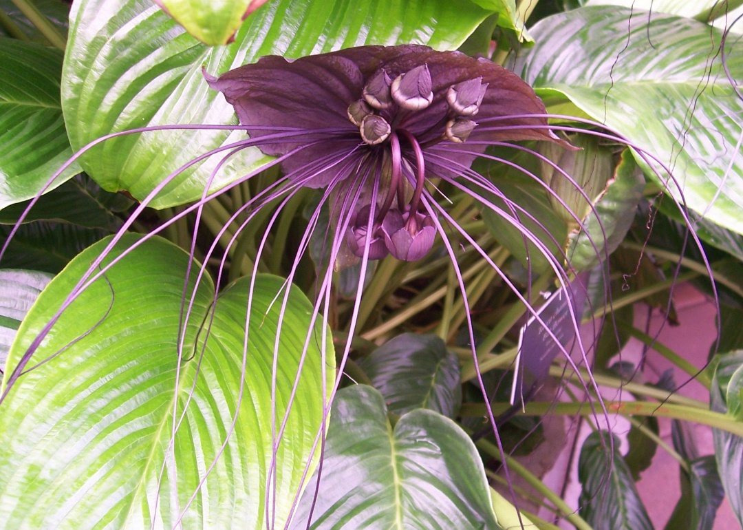 Tacca chantrieri. This plant is pollinated by bats.